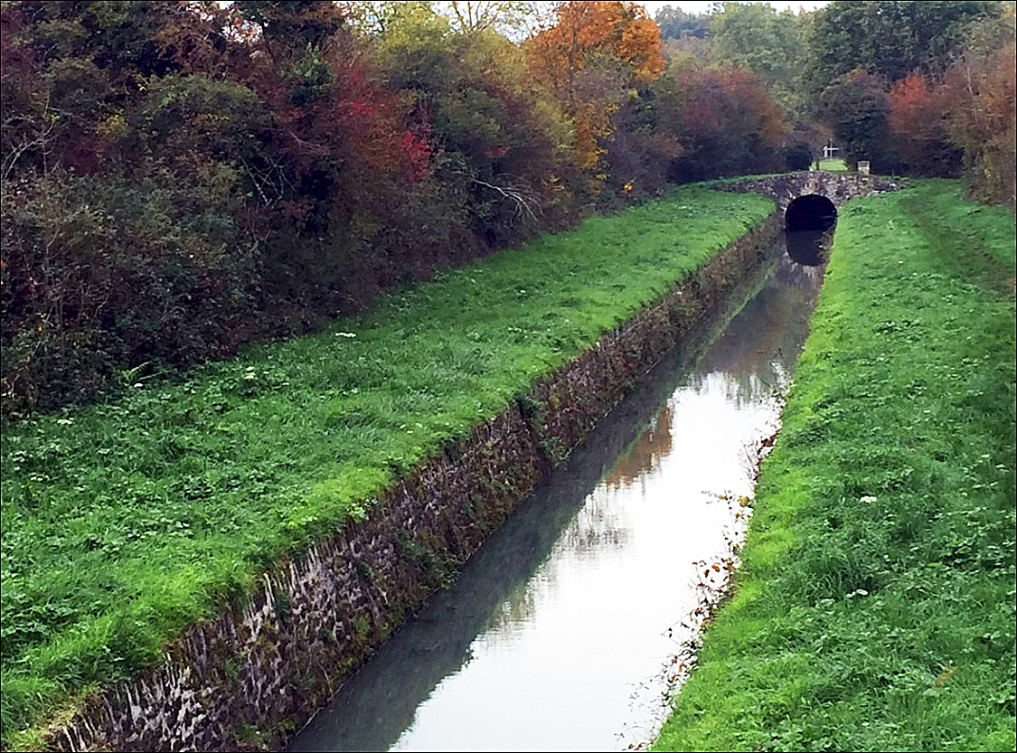 Marly Machines. Channel of the Pieds-Droits.